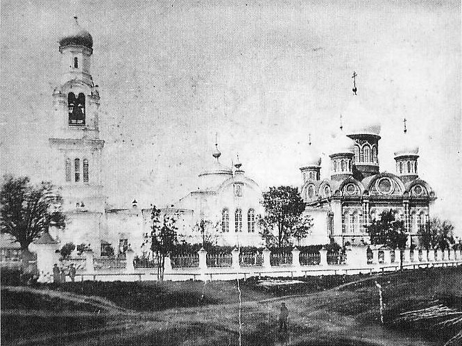 St.Nikolas temple in Rogachevo, Moscow regon, Russia. XIX c.